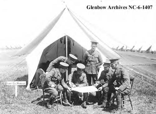 Colonel Harwood and staff of 51st Battalion, Sarcee Army Camp, Calgary, Alberta